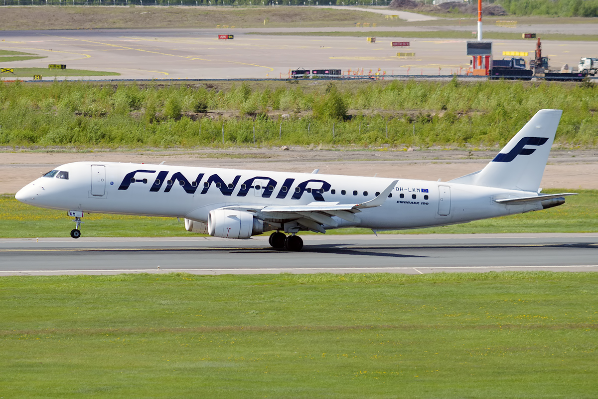 Flybe Nordic (Finnair livery), OH-LKM, Embraer ERJ-190LR